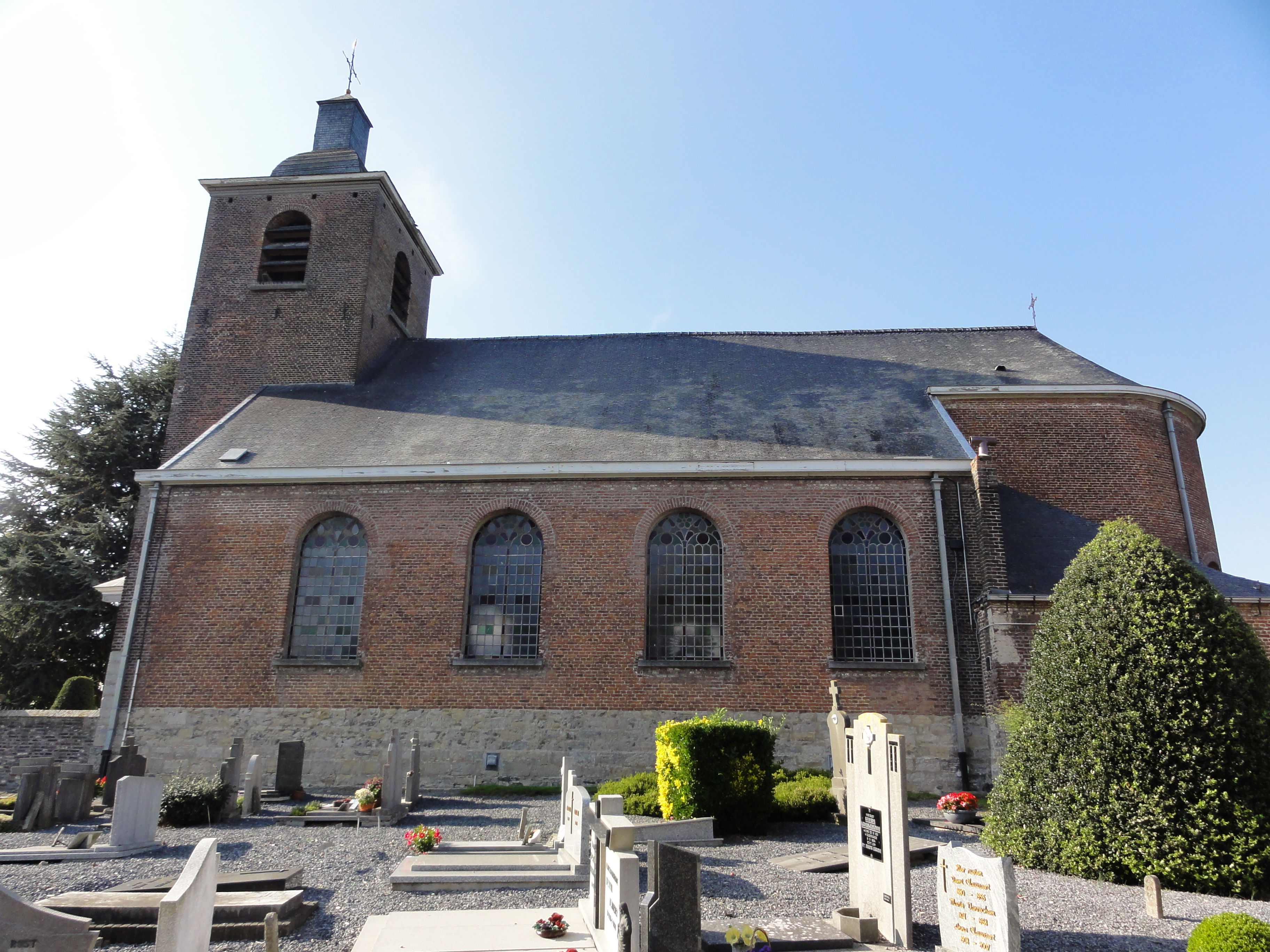 Sint-Denijskerk (Church of Saint Denis) in Lede. Lede, Wannegem-Lede, Kruishoutem, East Flanders, Belgium